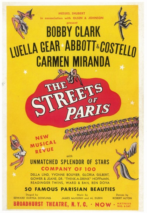 Poster for the 1939 musical review The Streets of Paris